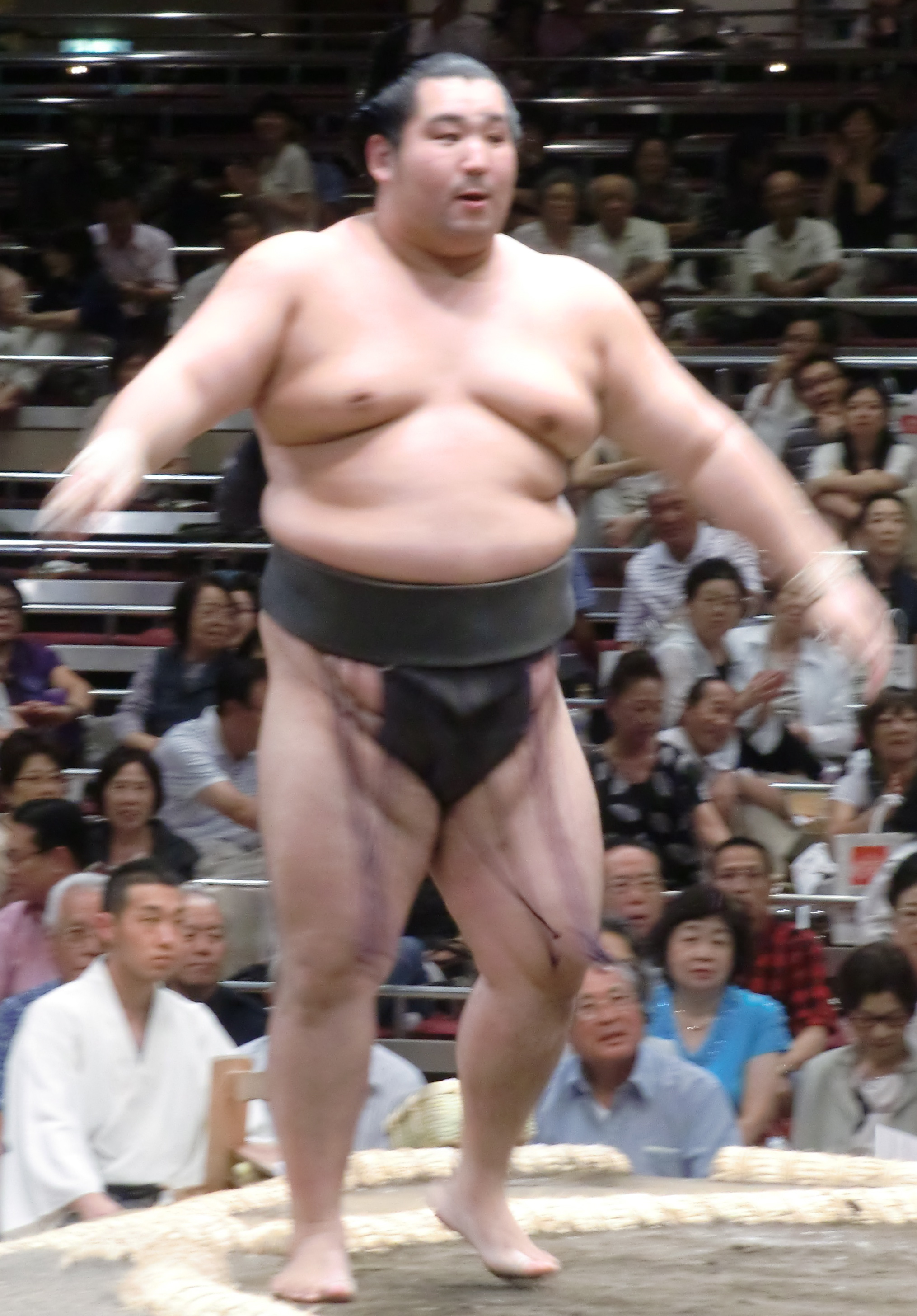 taken at 2011 Sep tournament